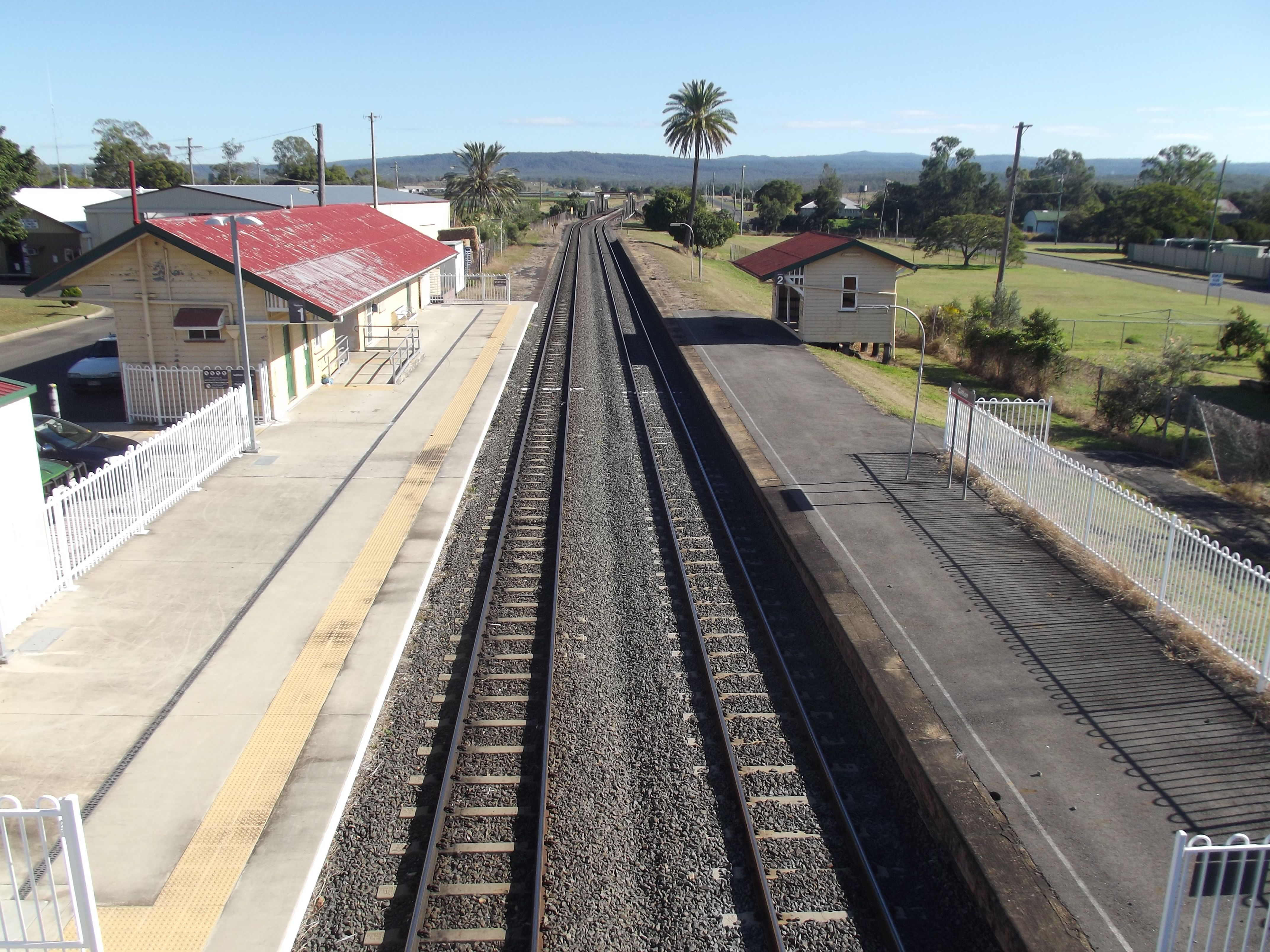 Gatton station on the western line.